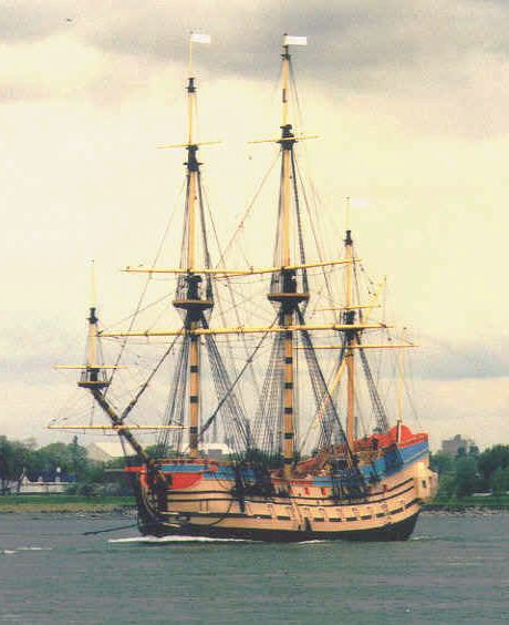 The Pelican, french ship of line (1693-1697).